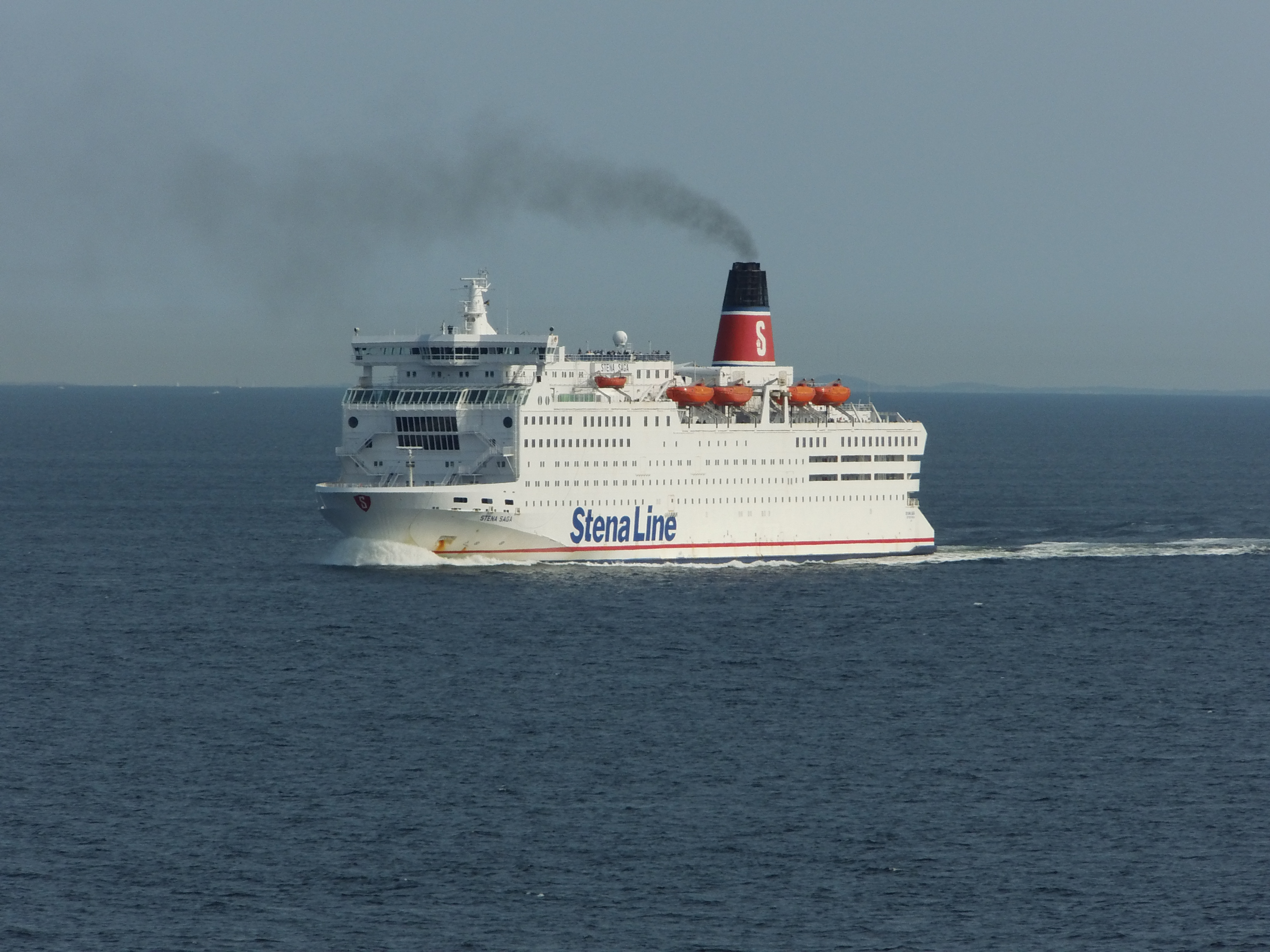 Stena Saga at sea